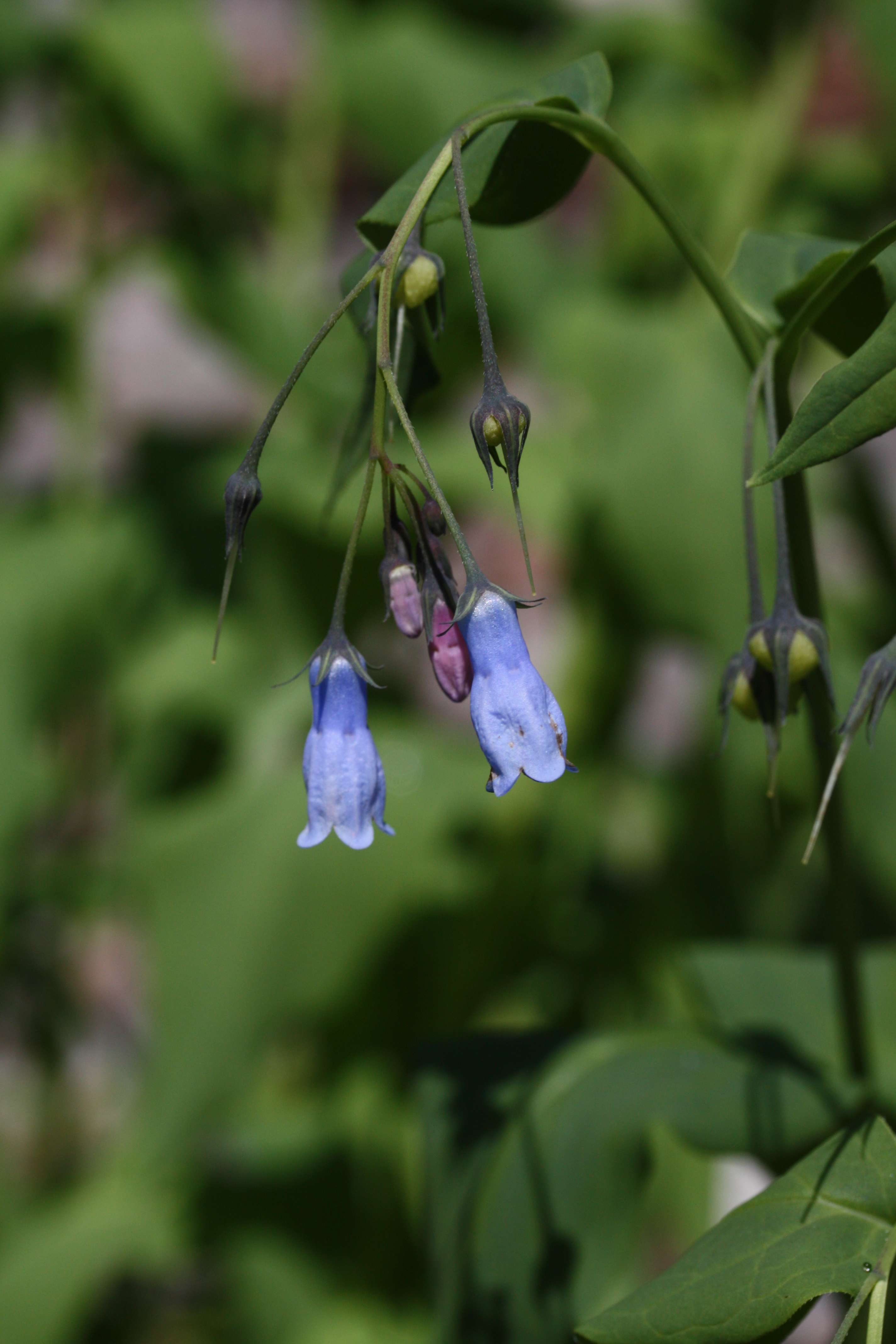 Tall Bluebells, Tall Lungwort